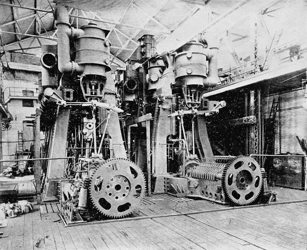 Quadruple expansion engines of SS St. Louis (1894) in the workshop of William Cramp & Sons where they were built.